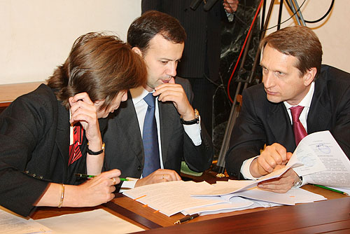 THE KREMLIN, MOSCOW. At the meeting of the Anti-Corruption Council. From right to left: head of the Presidential Executive Office and chairman of the Council Presidium Sergei Naryshkin, Presidential Aide Arkady Dvorkovich, Presidential Aide and head of the Presidential State-Legal Directorate Larisa Brychyova.